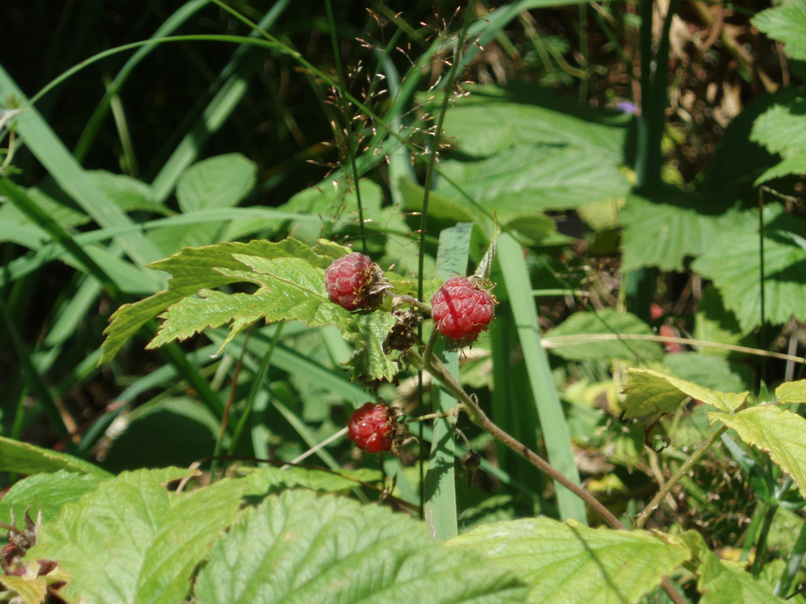 Natural raspberries in Massif des Voirons (Haute-Savoie) (France)